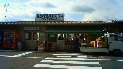 Kasaoka Port. Kasaoka Port, Kasaoka.